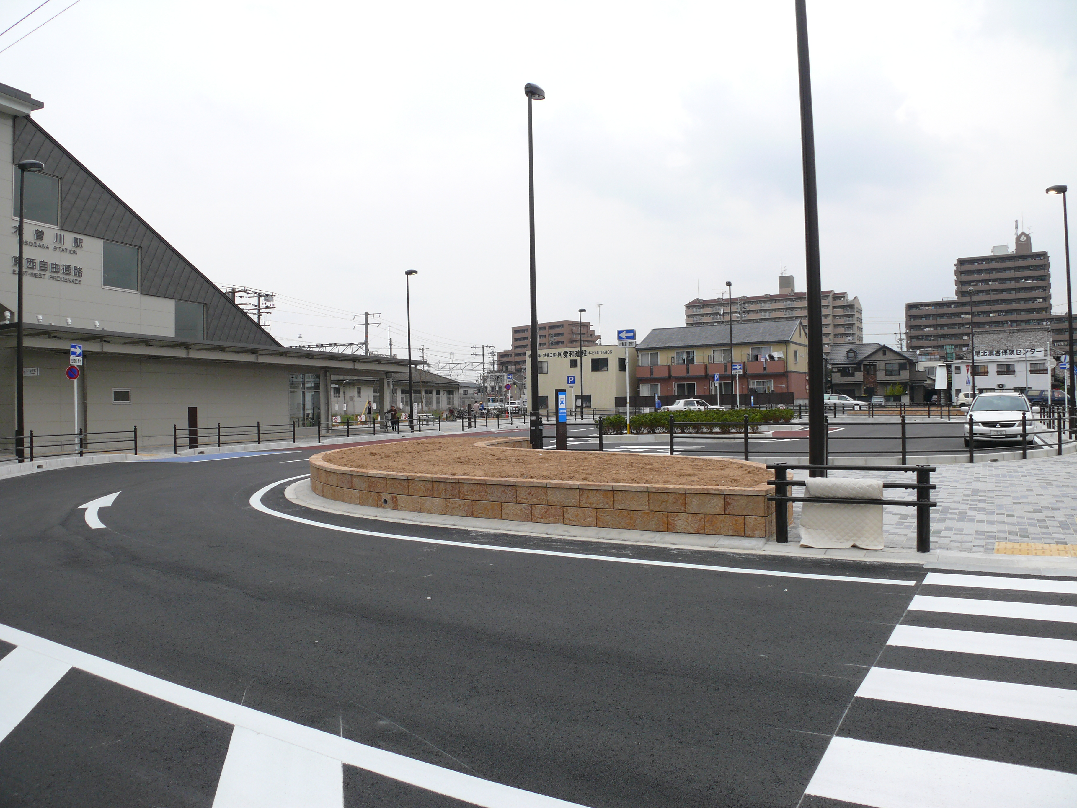 JR Central Kisogawa Station